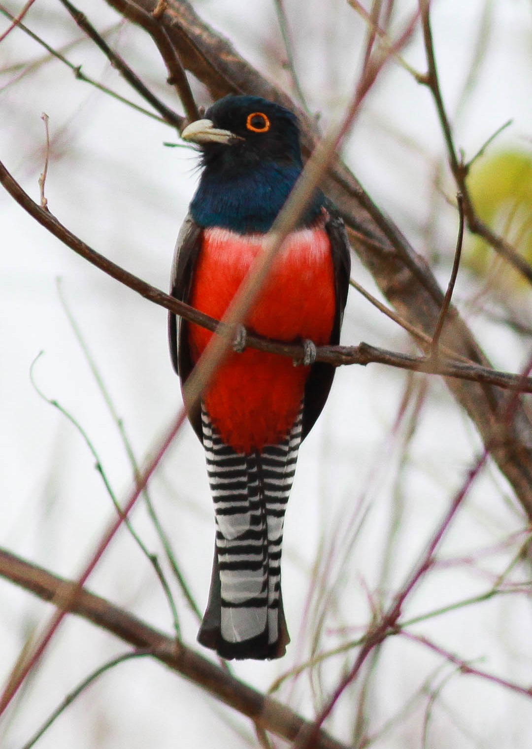 Trogon curucui